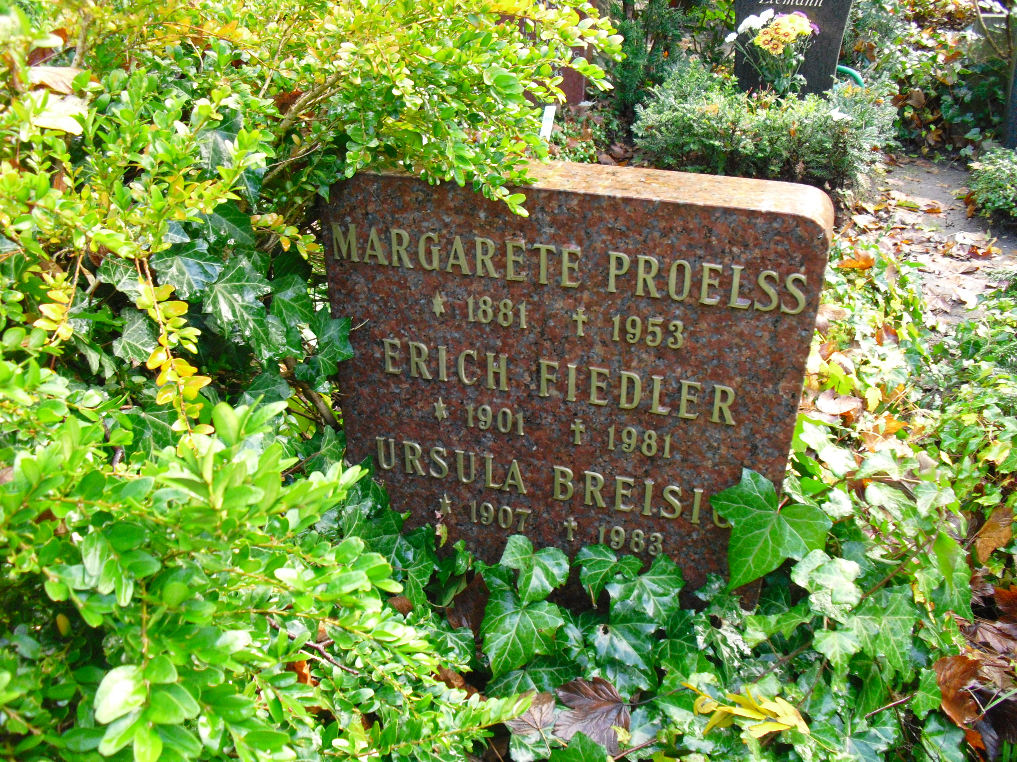 Grave of German actor Erich Fiedler in Friedhof Heerstraße in Berlin-Westend